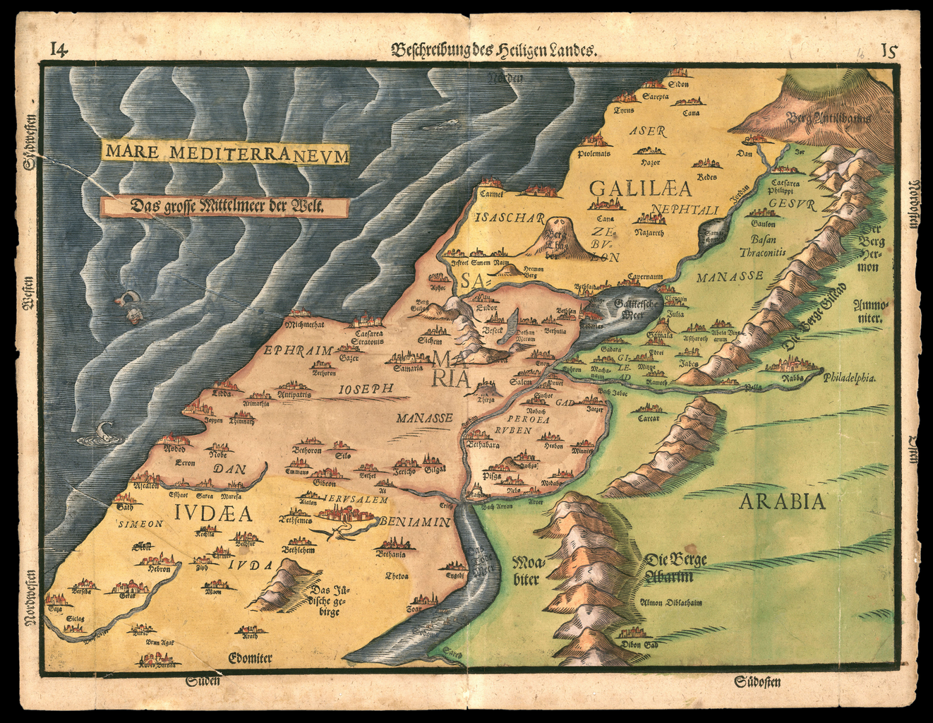 This woodcut map of 1585 shows the Holy Land as it would have appeared at the time of Jesus, divided into Galilee, Samaria, and Judea. The map appeared in the Itinerarium Sacrae Scripturae (Travel book through Holy Scripture) of Heinrich Bünting (1545-1606). Bünting studied theology at the University of Wittenberg in Germany and became a Protestant pastor and theologian, but retired from the ministry after controversy arose over some of his teachings. Itinerarium Sacrae Scripturae was an immensely popular book in its day. It provided the most complete available summary of biblical geography and described the geography of the Holy Land by tracing the travels of major figures from the Old and New testaments.